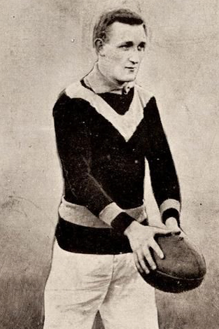 Photograph of Dave Greenham from the 1910 Weekly Times Victorian Footballer Postcard Series